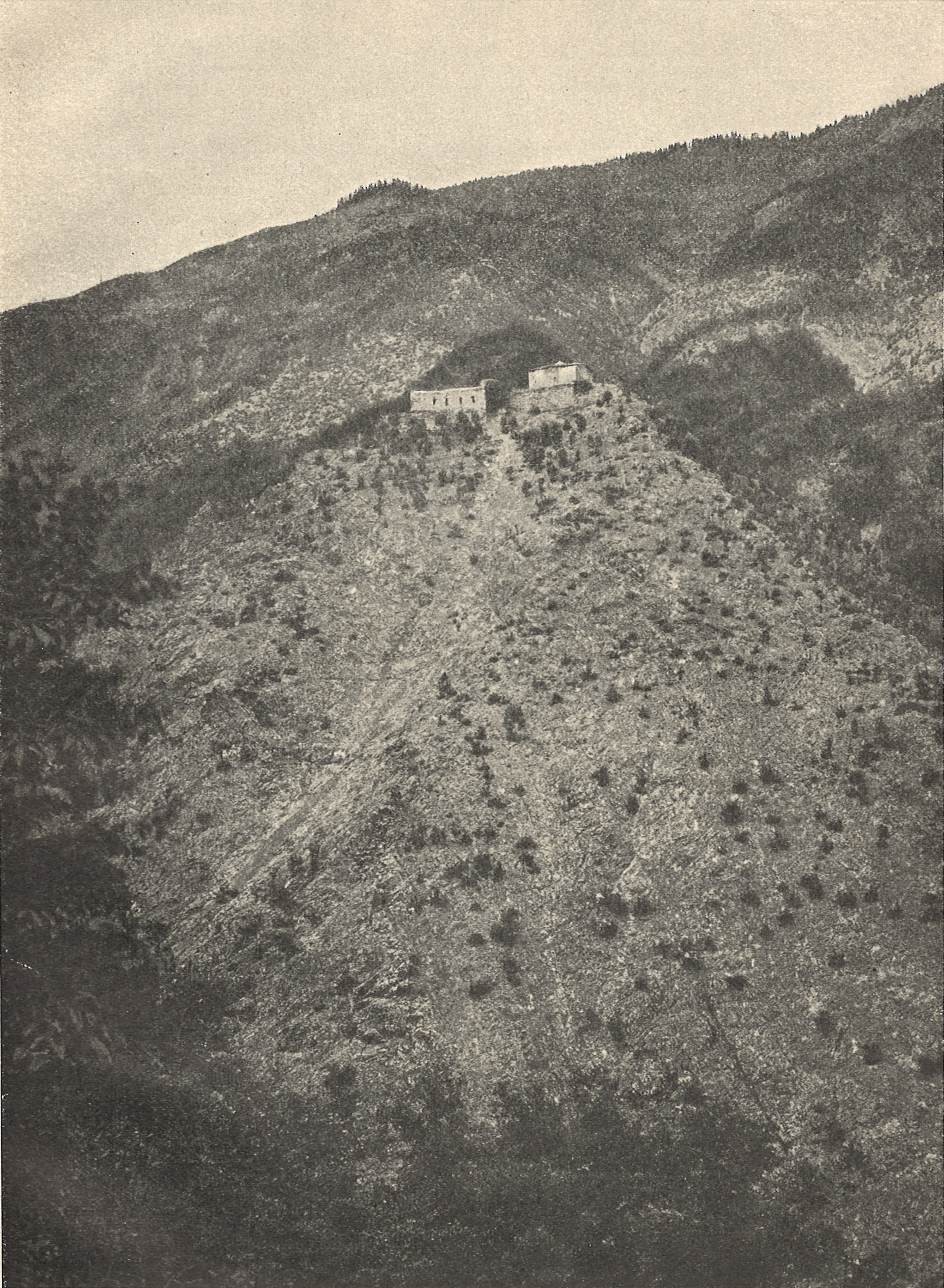 The former Georgian convent of Berta served as a mosque when Nicholas Marr visited it in 1911